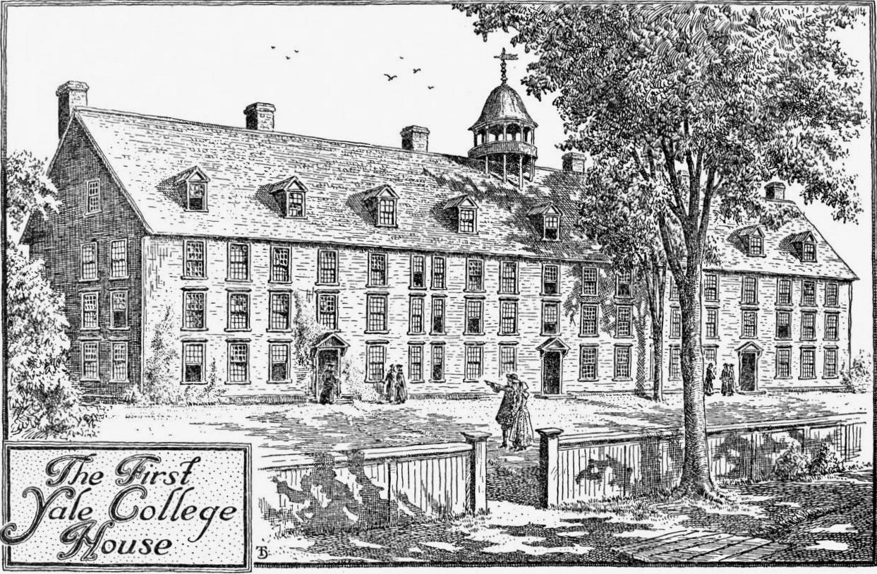 A reconstructed view of the first Yale College building in New Haven, Connecticut, built 1718. Description from the table of illustrations: "The traditional view of this building is the published by Buck in Boston, around 1750. Professor Dexter, in his "Yale Biographies and Annals," considers the Greenwood representation as "a fancy sketch." It obviously does not follow the dimensions of the structure, as given by the Trustees at the time or in their memorandum of the timber specifications, nor by President Clap in his "Annals of Yale," 1766. An attempt has here been made, with the valued assistance of Mr. Norman M. Isham of Providence, the recognized authority on early New England architecture, to represent this building for the first time in its known dimensions, which were about 165 feet long by 22 wide, and 27 feet high. Professor Dexter's decision that there was no clock on this building."